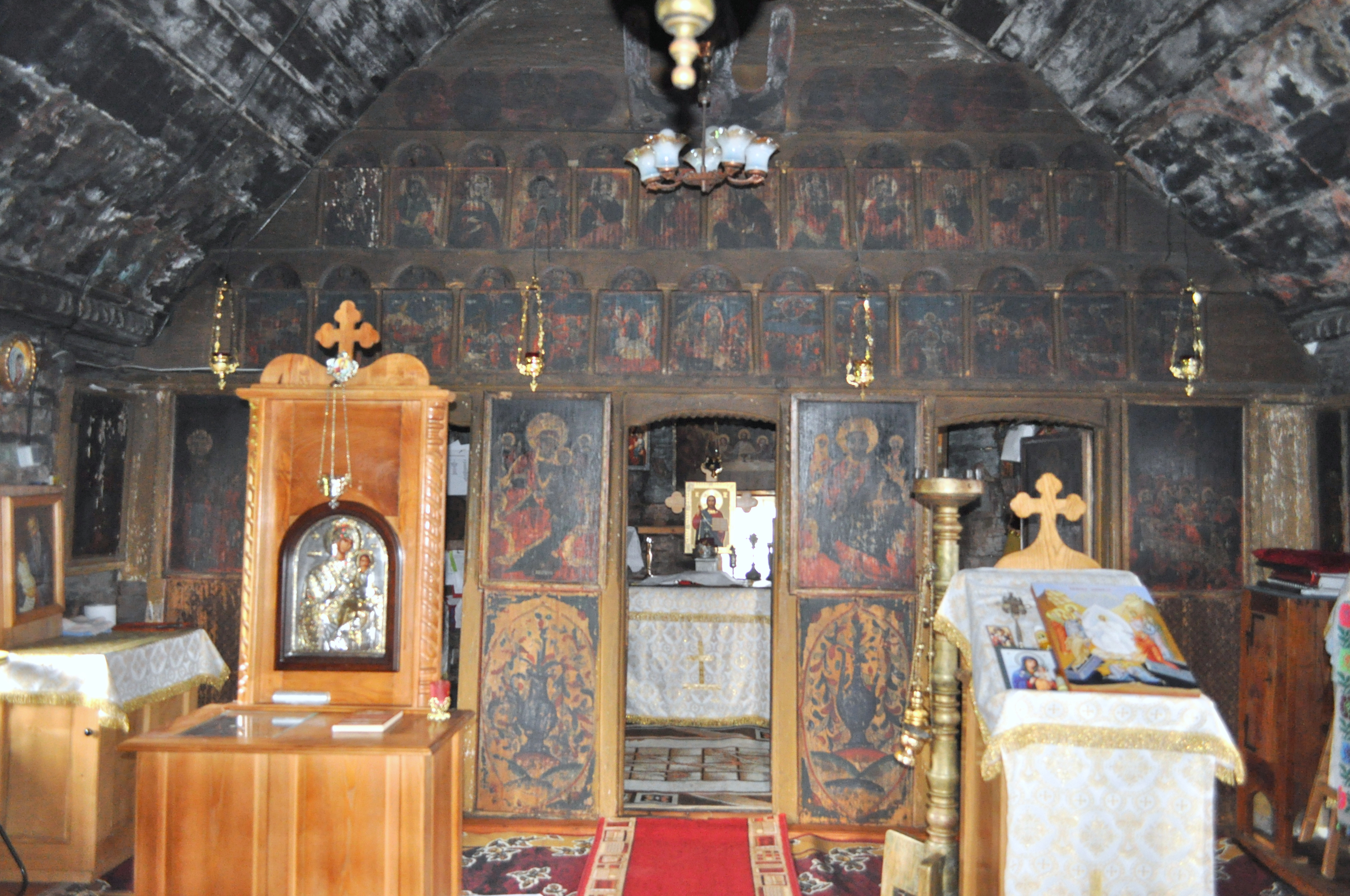 Wooden church in Horezu, Gorj county, Romania